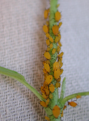 Oleander Aphid Aphis nerii. This aphid occurs on a wide variety of hosts in the plant families (apocynaceae) and asclepiadaceae. In this case the host plant is a milkweed vine, Sarcostemma cyanchoides.